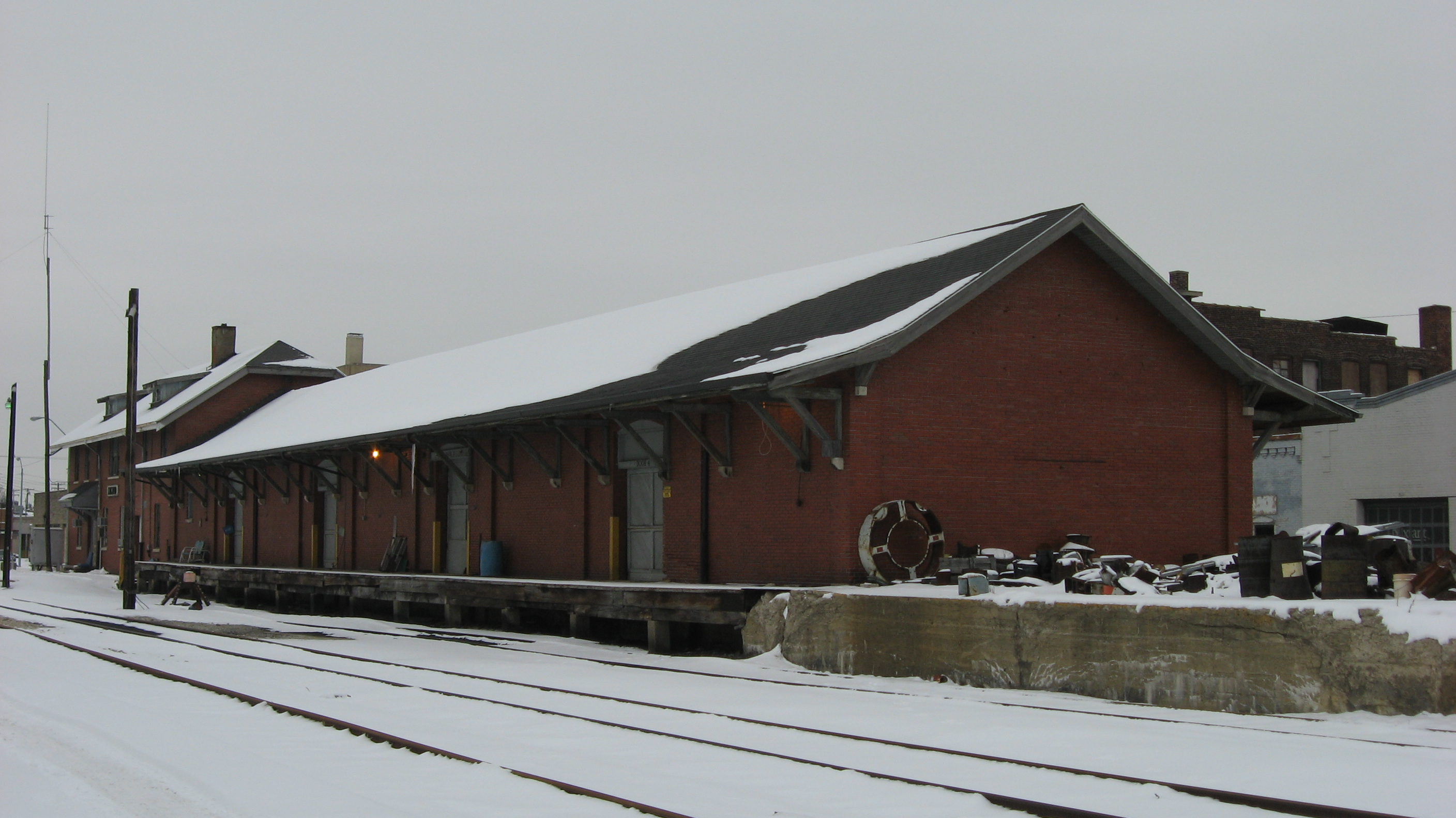 Rear and northern end of the former Lake Erie and Western Railroad train station in downtown Kokomo, Indiana, United States. Built in 1916, it lies at the core of the Lake Erie and Western Depot Historic District, a historic district that is listed on the National Register of Historic Places.